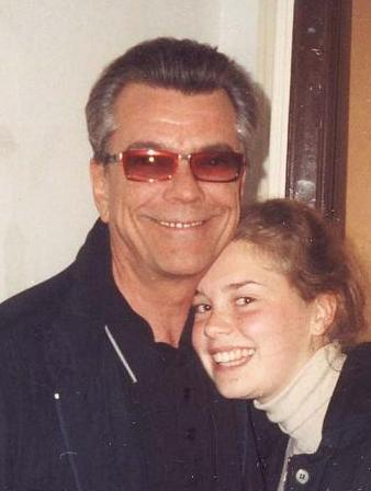 Swedish musician Per Olov "Peo" Jönis and daughter Rosanna, as released by image creator F.U.S.I.A.;Place: F.U.S.I.A. seat, Hökens gata 3, Stockholm, Sweden